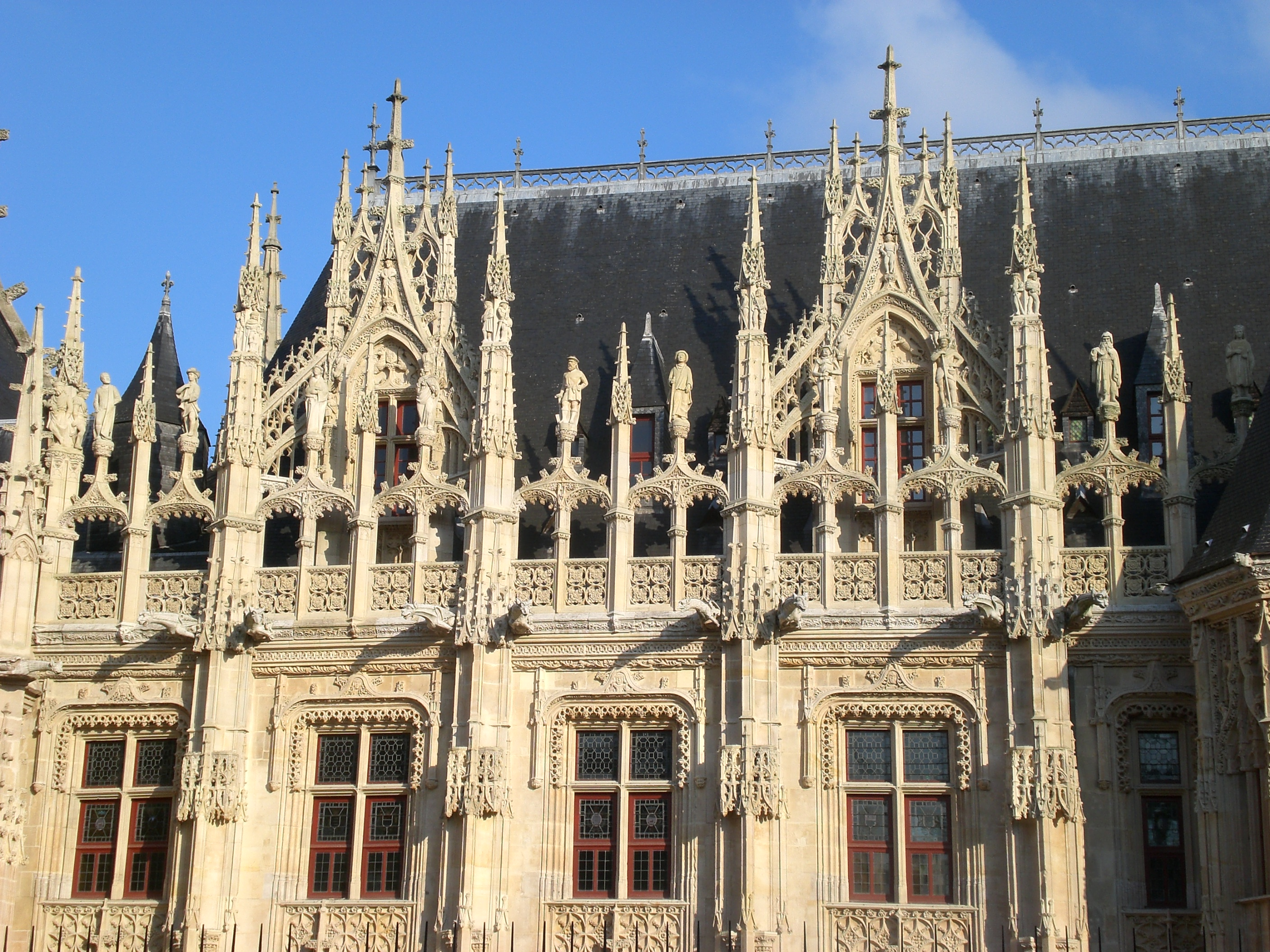 Rouen, Palaice of Justice, 1499-1550